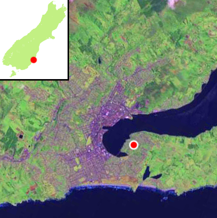 Map showing location of Waverley, Dunedin, New Zealand. Based on NASA satellite map